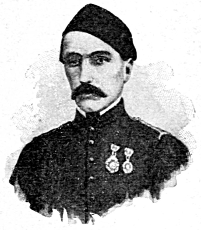 Illustration from book Storia dei Mille by Giuseppe Cesare Abba - Tuköry